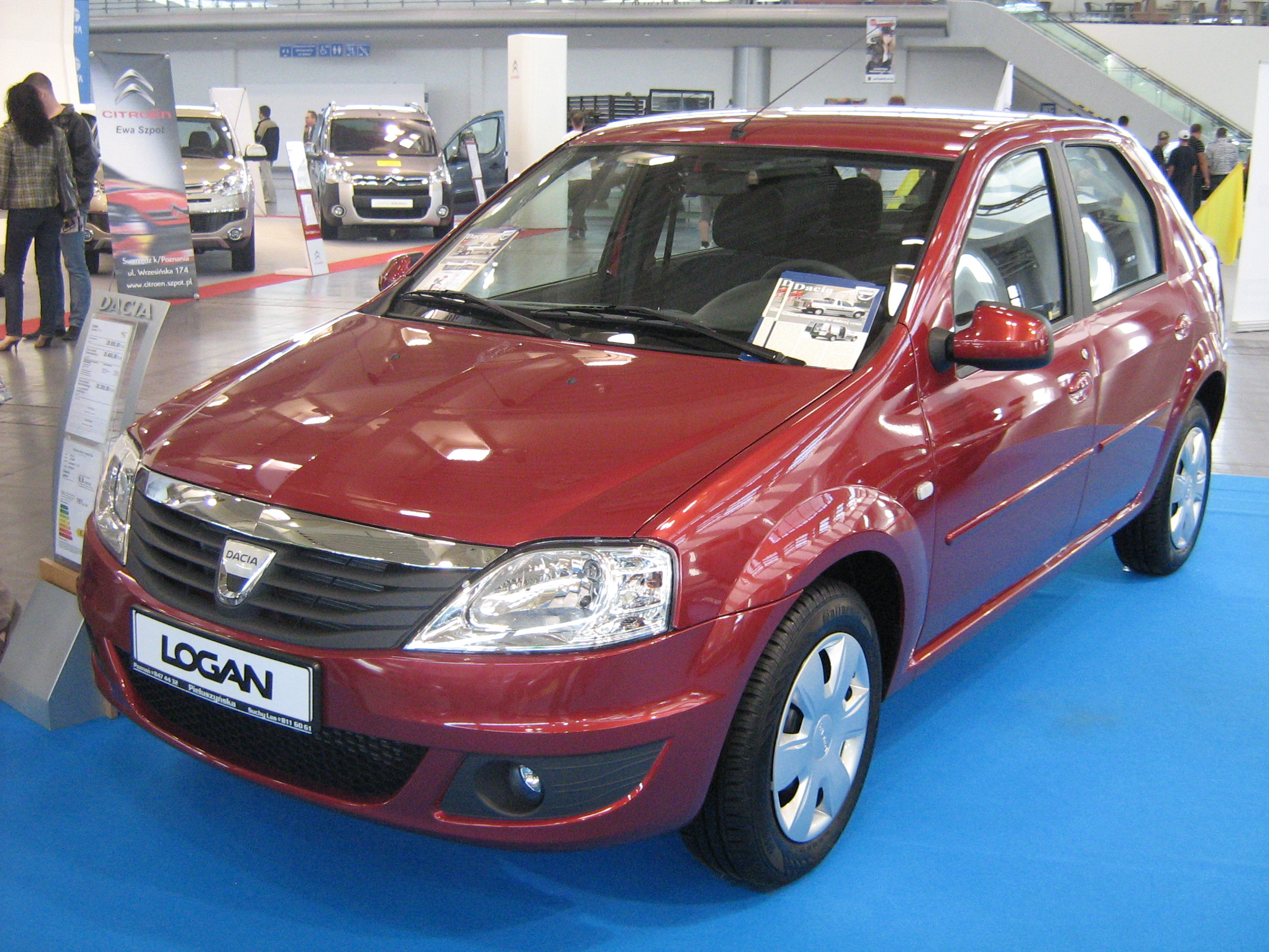 Dacia Logan Facelift - PSM 2009 in Poznan.